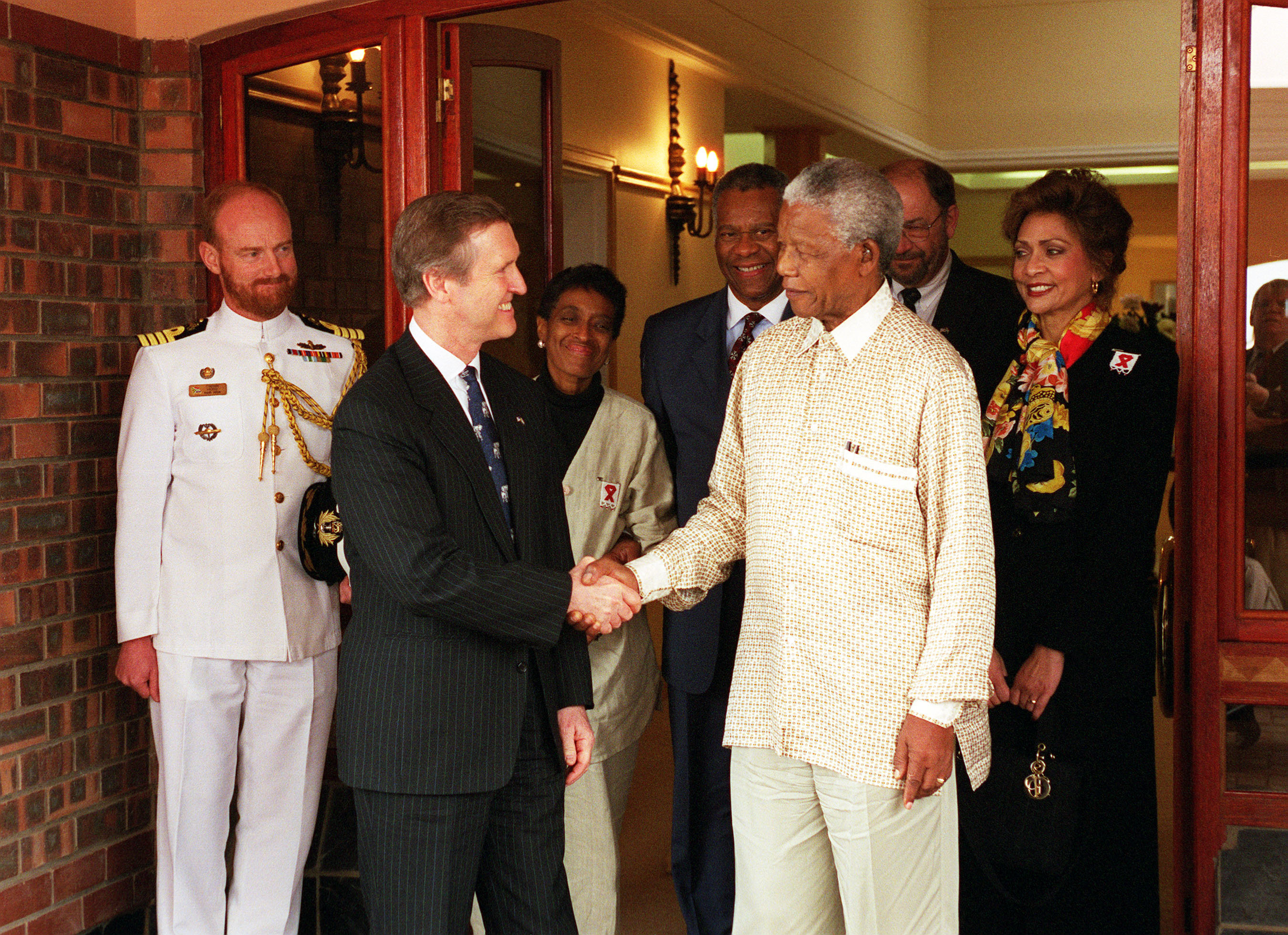 Secretary of Defense William S. Cohen (2nd from left) thanks Nelson Mandela (3rd from right) for meeting with him and members of his delegation at Mandela's home in the village of Qunu, near the town of Umtata, Eastern Cape, South Africa, on Feb. 16, 2000. Also attending the meeting were (L to R in the back row): Capt. Dusty Higgs, South African Navy, military attachÃ© at the Embassy of South Africa in Washington, D. C.; Mrs. Lewis with her husband U.S. Ambassador to South Africa Delano Eugene Lewis, Sr., Deputy Assistant Secretary of Defense for African Affairs Bernd McConnell, and Mrs. Janet Langhart Cohen.